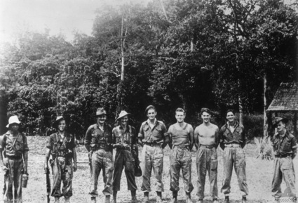 From the Australian War Memorial website. Photograph of Major G. S. Carter (centre). Photograph P00560.001 AWM caption: Physical description: Black & white Summary: Long Akar, Borneo, 1945-05. Informal group photograph of members of the Semut II team, which undertook missions behind Japanese lines. Left to right are: Corporal (?) Abu Kassan, Sergeant Jeh Soen Ken, Major W. Sochon, Sergeant T. Barrie, Major G. S. Carter, Sergeant C. W. Pare, Sergeant K. D. Hallam, a prisoner of war rescued by the Semut II team, Warrant Officer D. L. Horsnell.